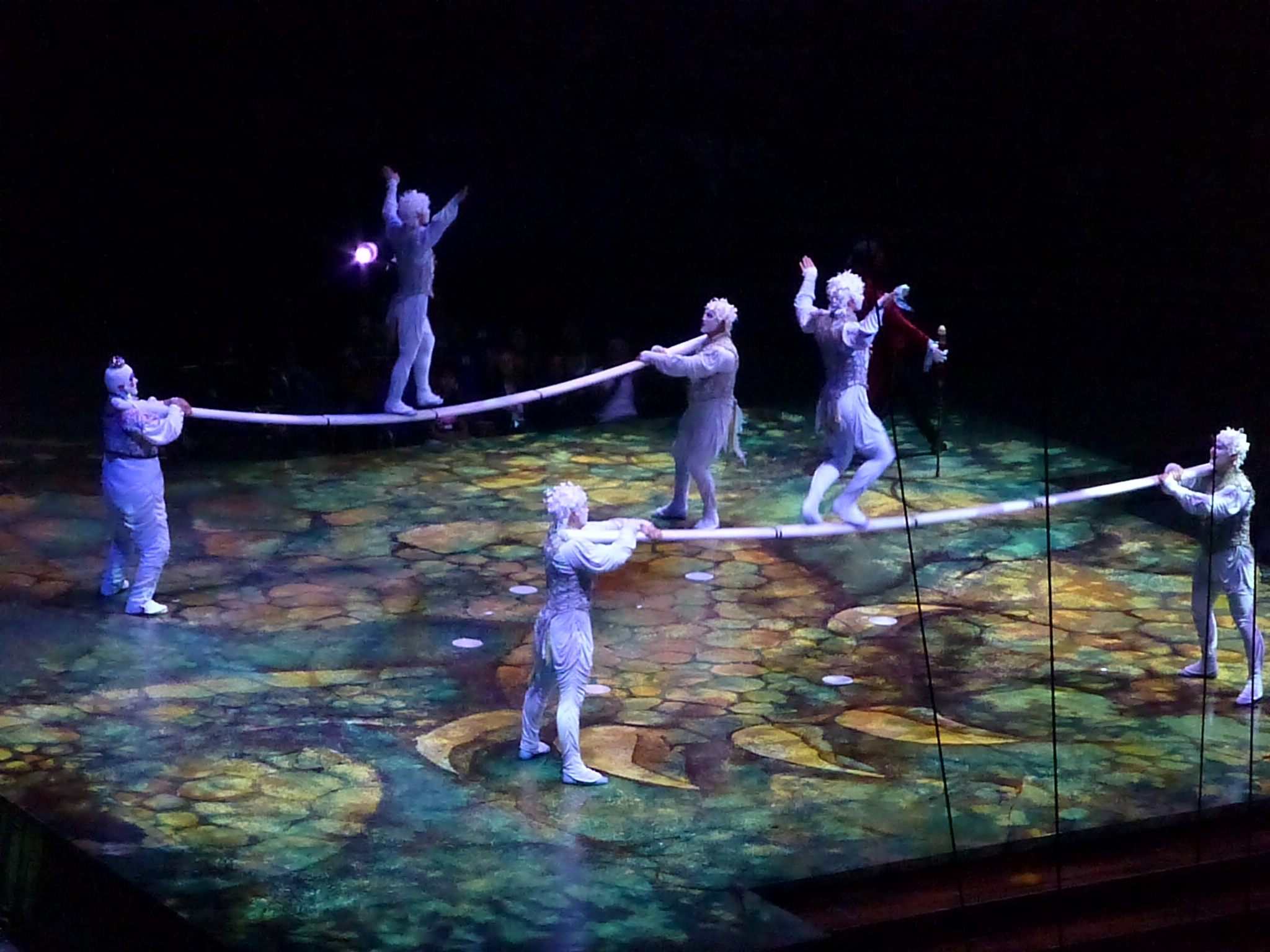 Cirque du Soleil 2012 Alegría, Istanbul, Turkey